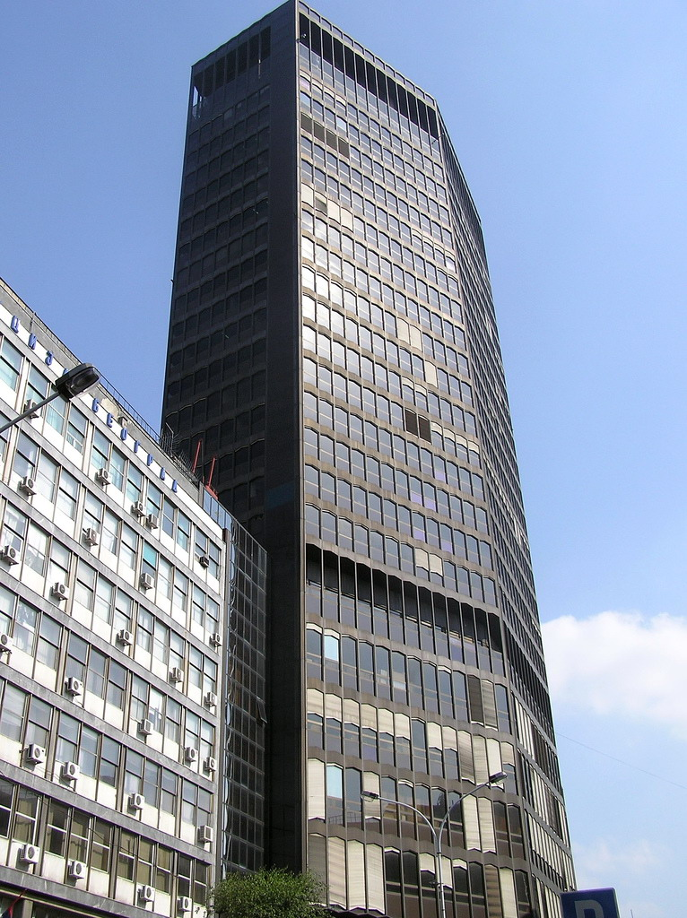 The Beograđanka high-rise building in the city center of Belgrade, one of the symbols of yugoslav architecture in the city